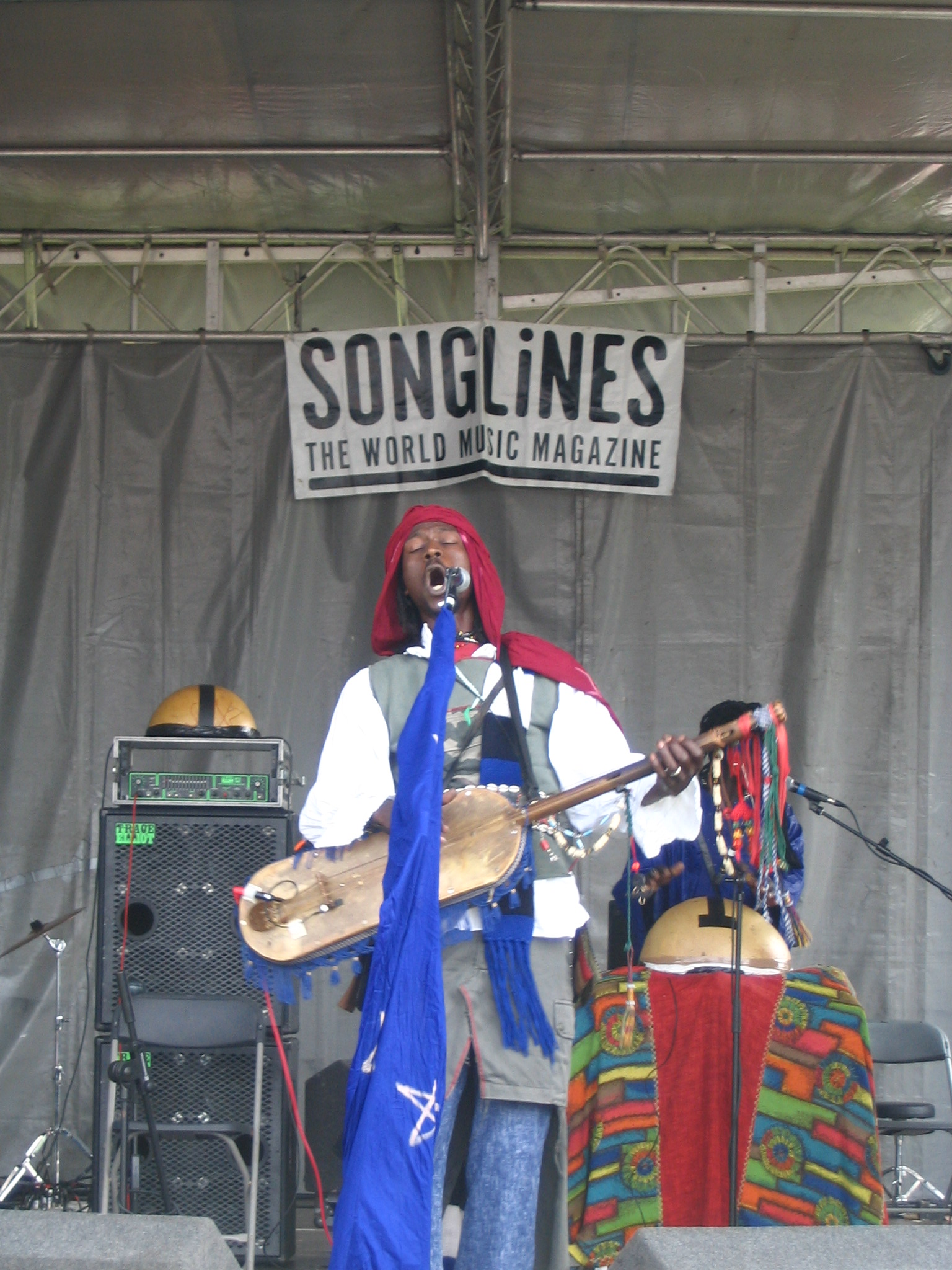 Nuru Kane playing the guimbri, or sintir at Africa Oye 2006